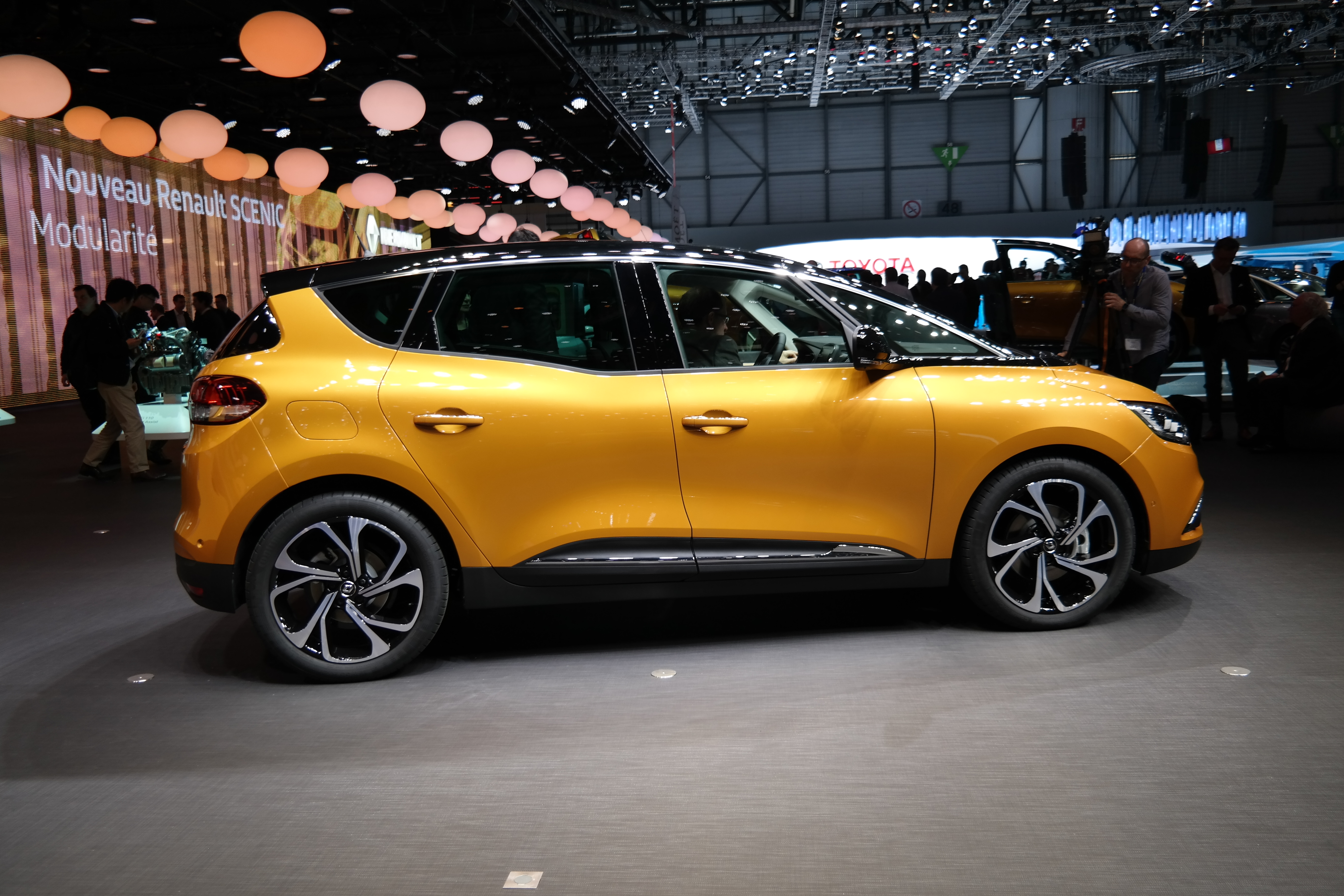 Geneva Motor Show 2016 (photo taken on the first press day)